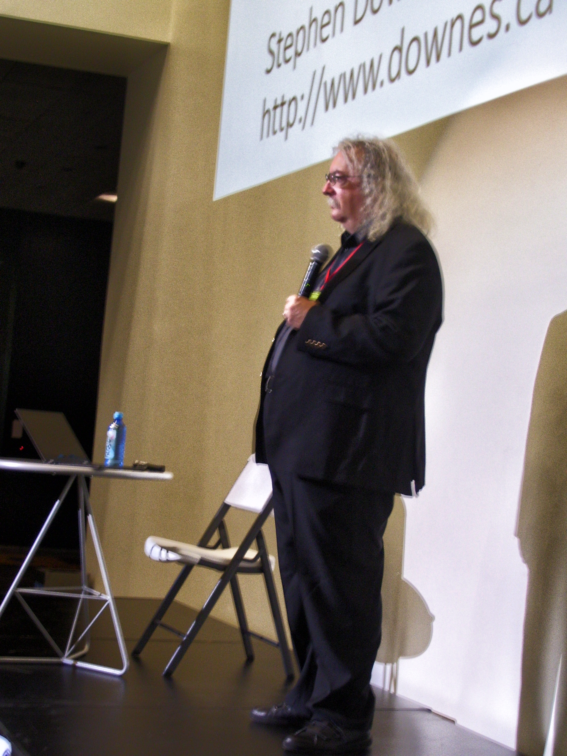 Stephen Downes during the "Unbordring Education" forum in the Yerevan "TUMO" creative technologies center․ 01,11,2014